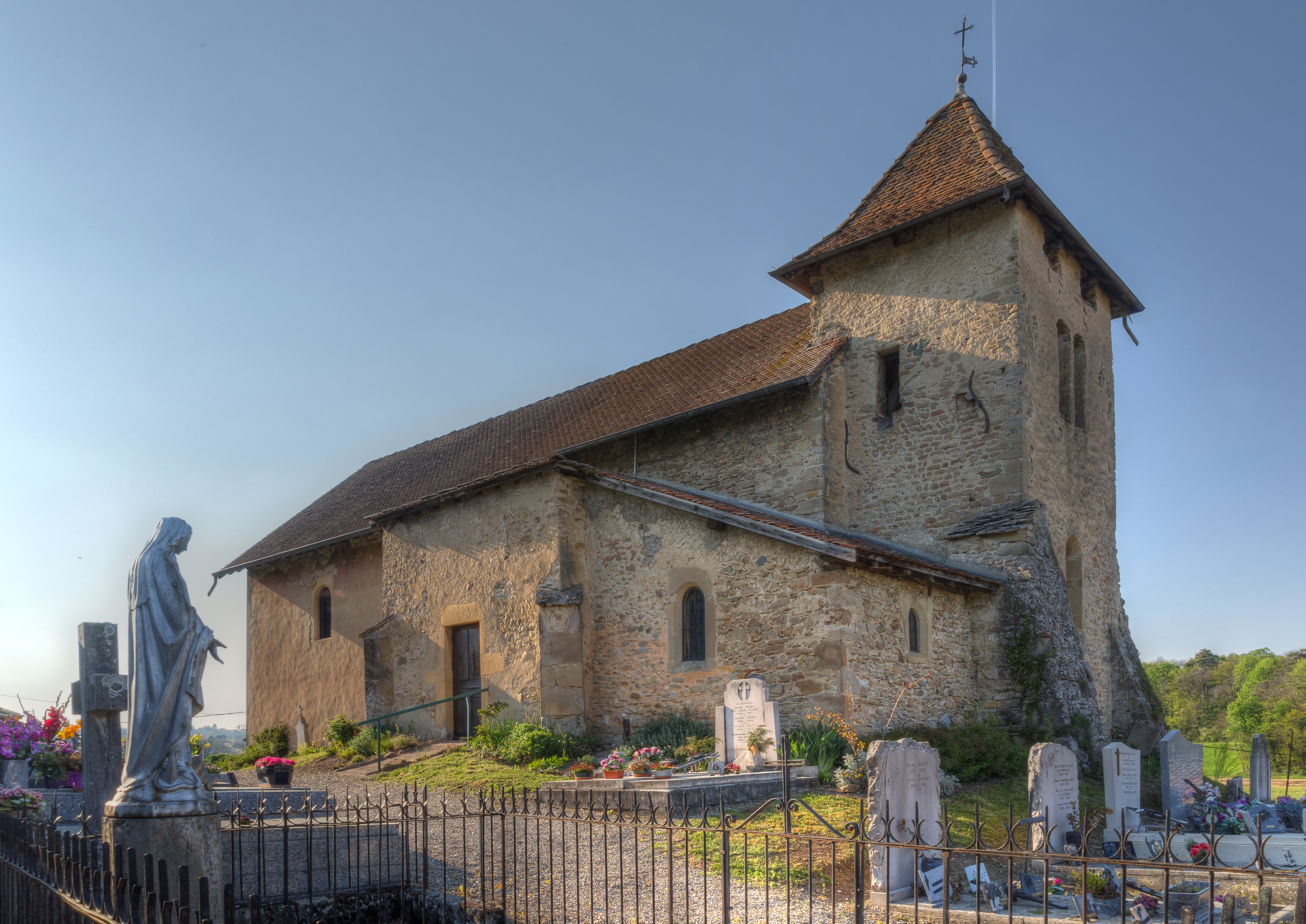 Church of Vermelle, Isère. The bedside and the cemetery.